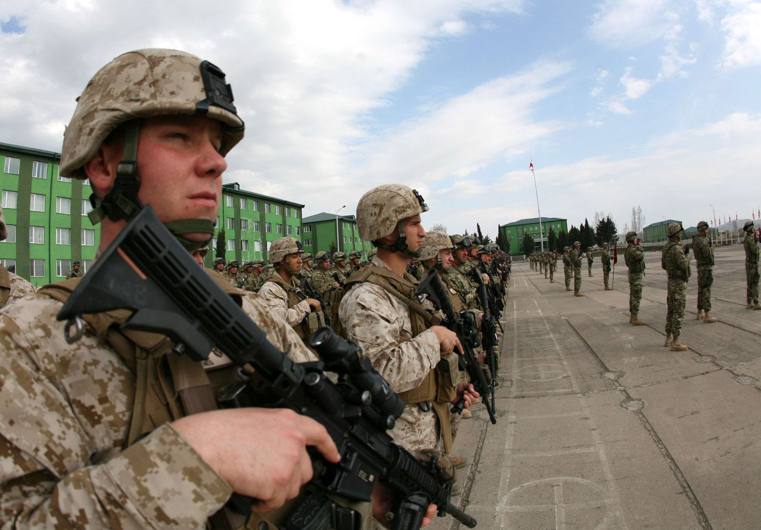 VAZIANI, Republic of Georgia-Marines from Third Battalion, Seventh Marine Regiment are part of the Georgia Liaison Team who assisted in the pre-deployment training for the Republic of Georgia's 33rd Light Infantry Battalion in preparation for their upcoming deployment to the Helmand Province, Afghanistan in support of the Georgia Deployment Program - International Security Assistance Force , Gunnery Sgt. Alexis R. Mulero, 4/8/2011 6:05 PM